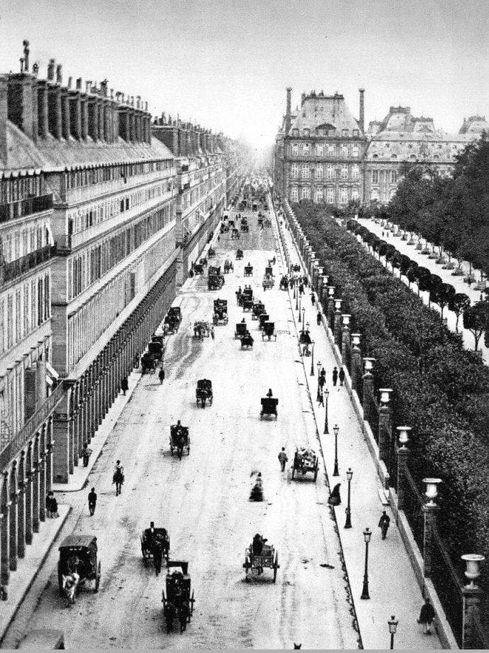 Paris - Rue de Rivoli (1855)